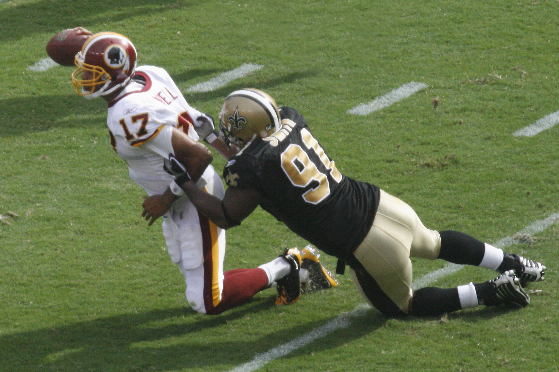 Will Smith sacking Jason Campbell